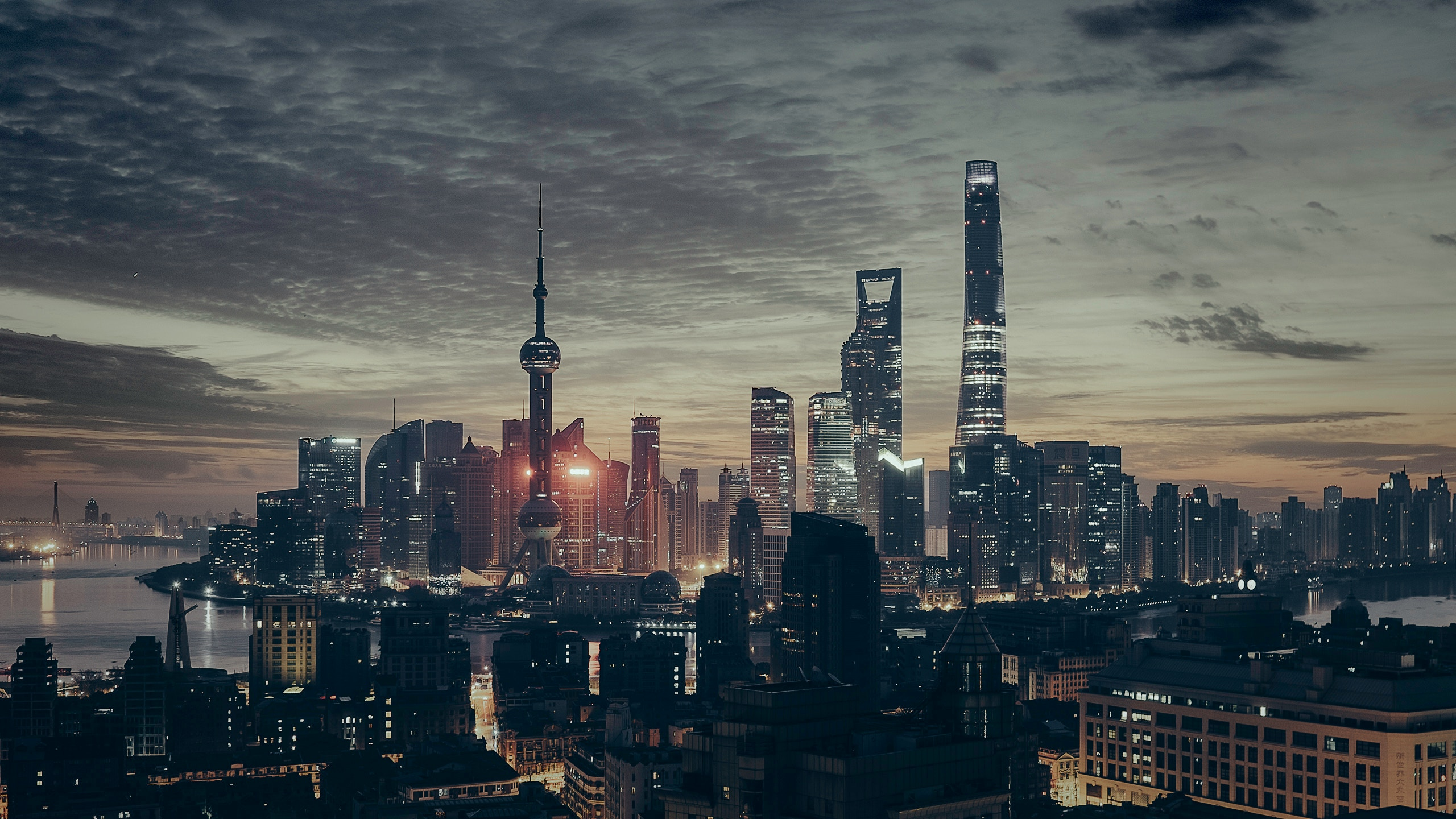 Impressive evening skyline in Shanghai